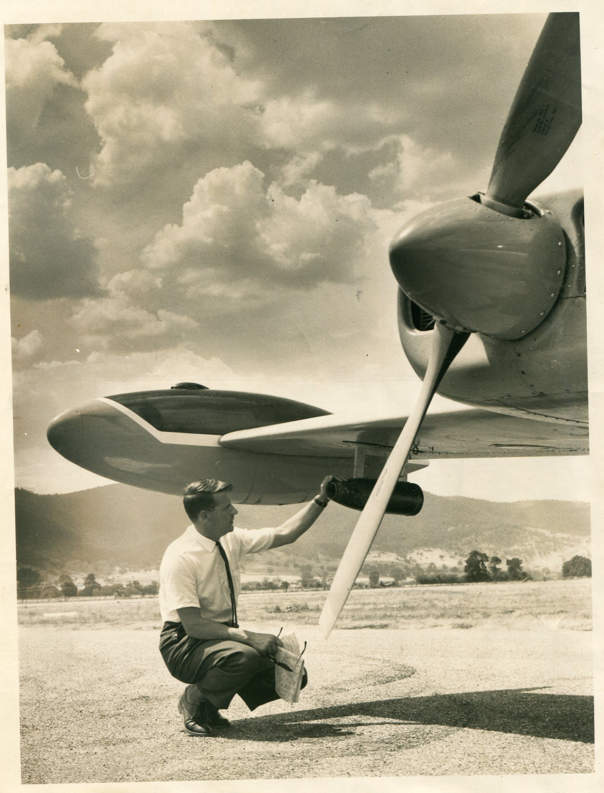 Cloud seeding at Corryong, Victoria - Cessna 410 - Athol Hodgson, 1966